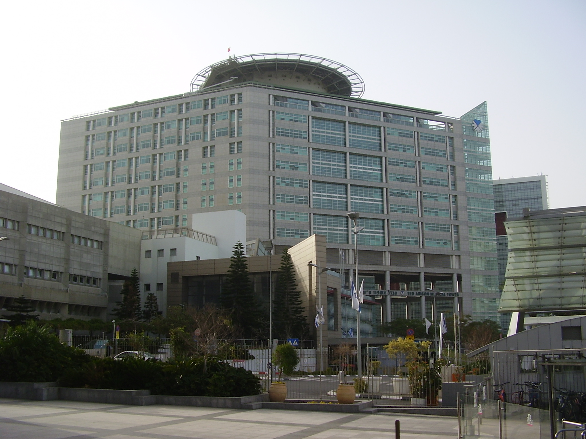 ted arison medical tower in tel aviv